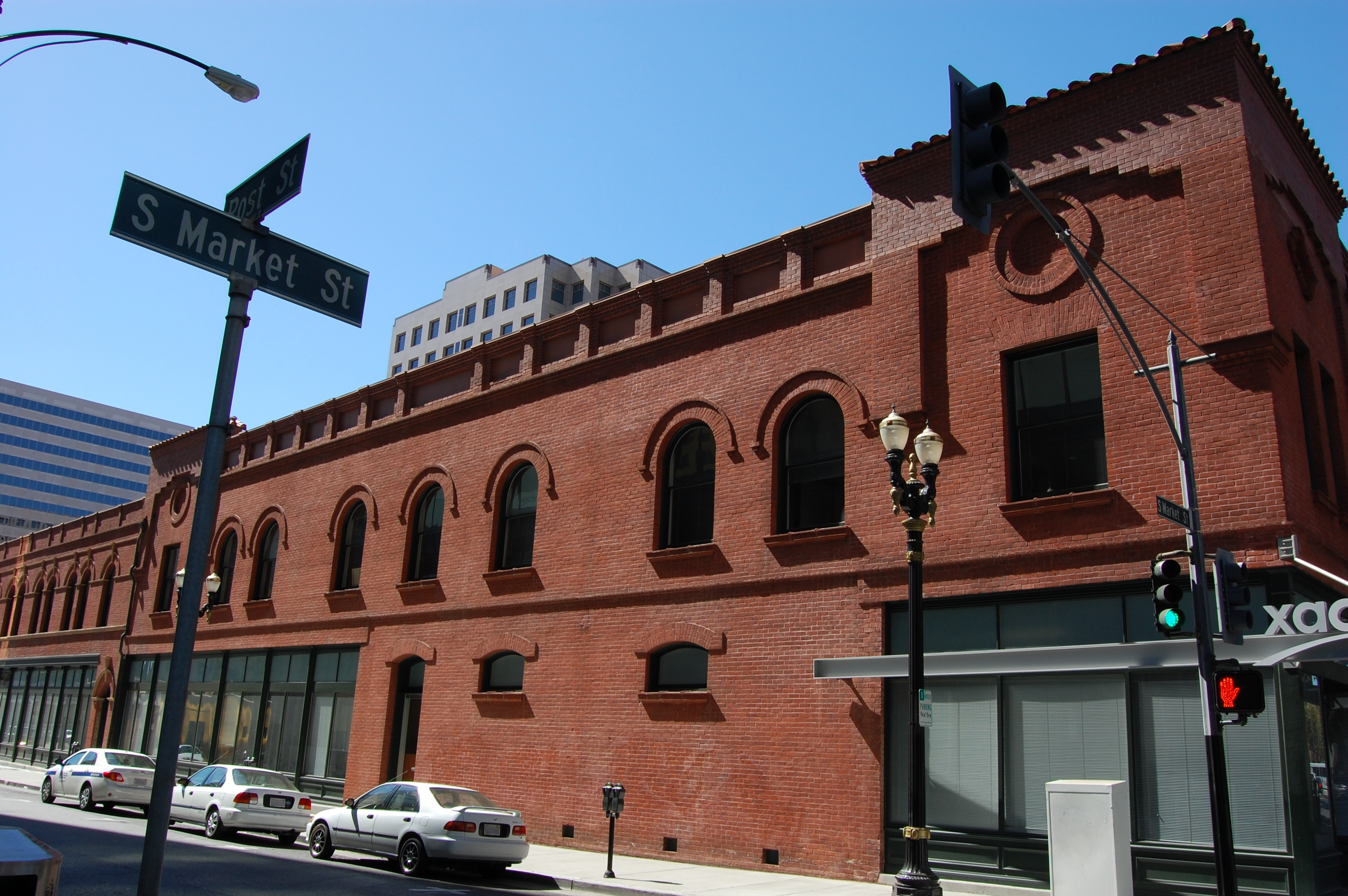 Hotel Metropole. 33/35 South Market Street. San Jose, California, USA